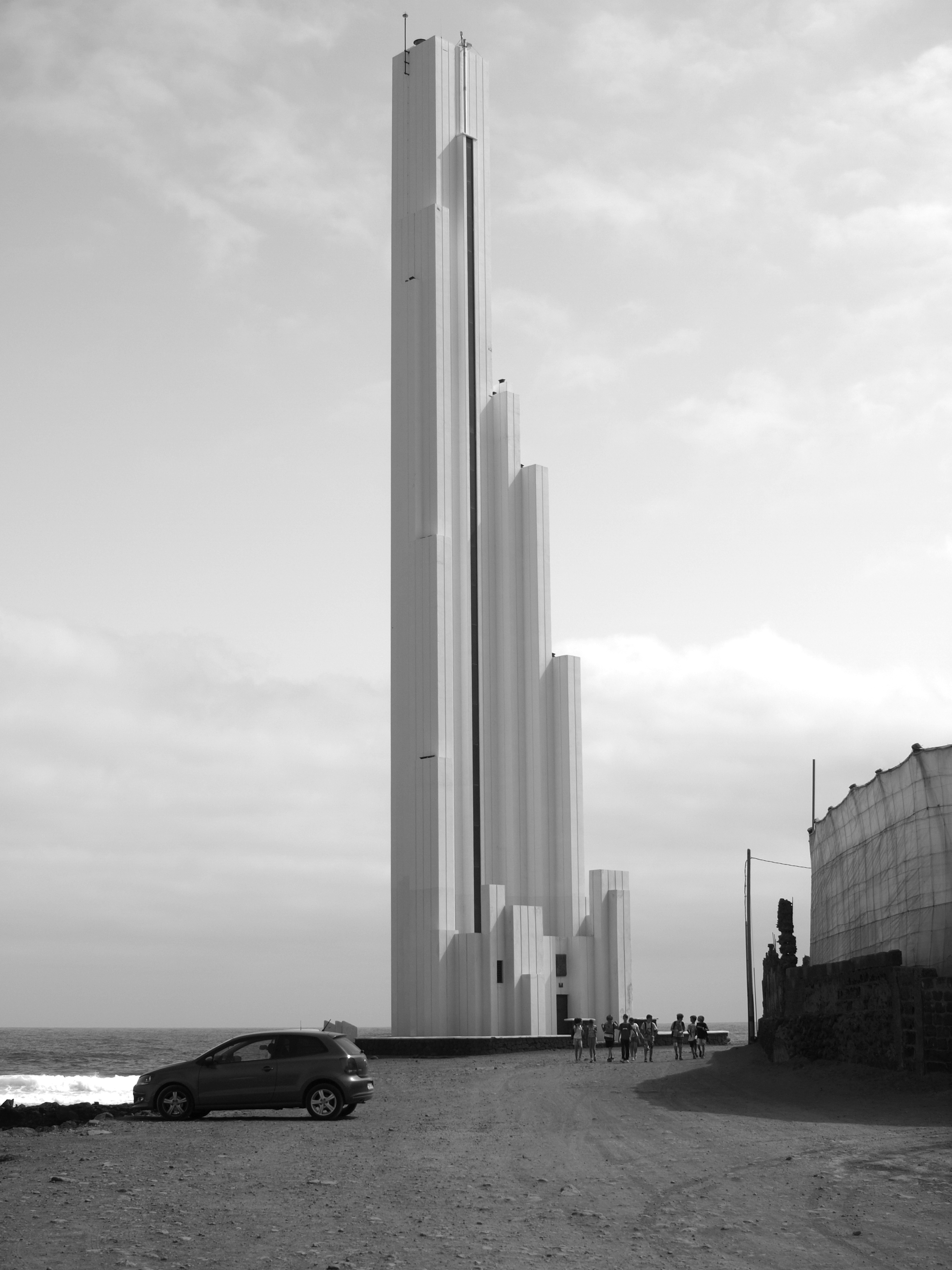 Lighthouse of Punta del Hidalgo, Tenerife, build in 1992.